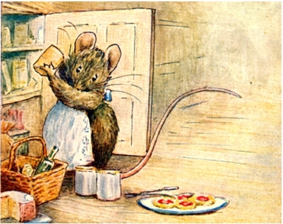 Illustration of the title character from Appley Dapply's Nursery Rhymes, a mouse raiding a cupboard